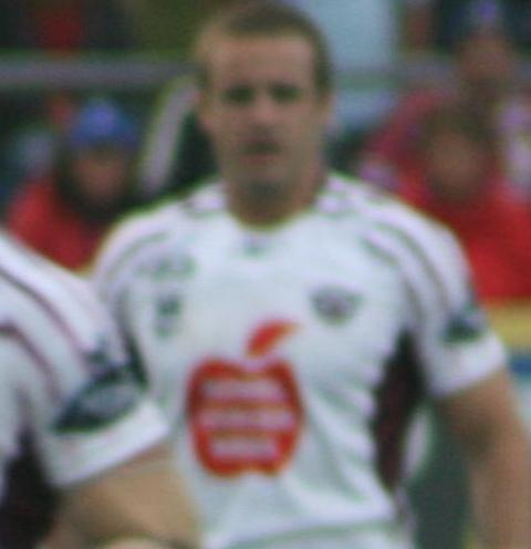 picture of a tackle in rugby league - manly sea eagles vs roosters in june 08, brookie oval, sydney, australia. Eagles won 42-0 (hooray!)